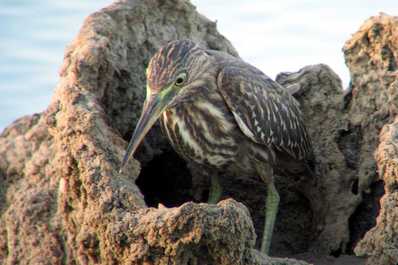 Striated Heron (Butorides striatus), seen in al-Qurum park, Oman, November 2004 Photo: Per-Anders Olsson (used with permission)